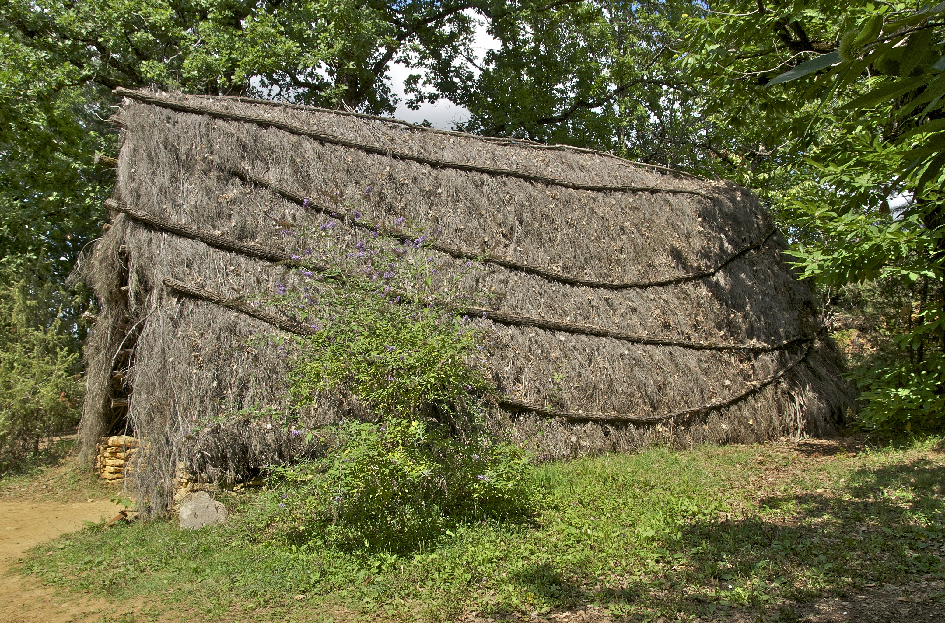 A thatched roof cabin, at a place known as Calpalmas (aka "Cabanes du Breuil"), at Saint-André-d'Allas, Dordogne, France.